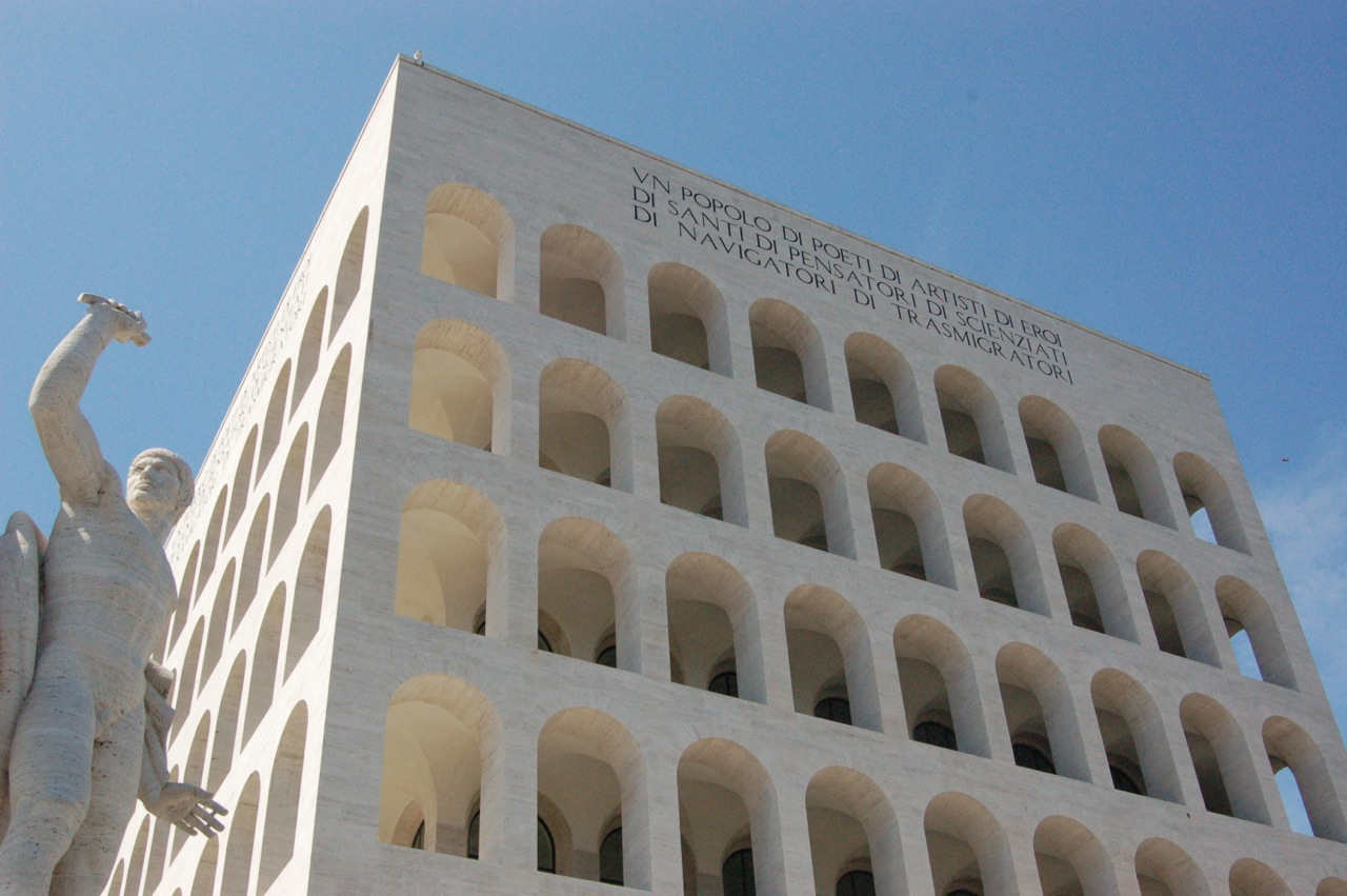 Palazzo di Lavore (Palace of Labor), in Mussolini’s Esposizione Universale Roma (EUR) complex south of Rome.